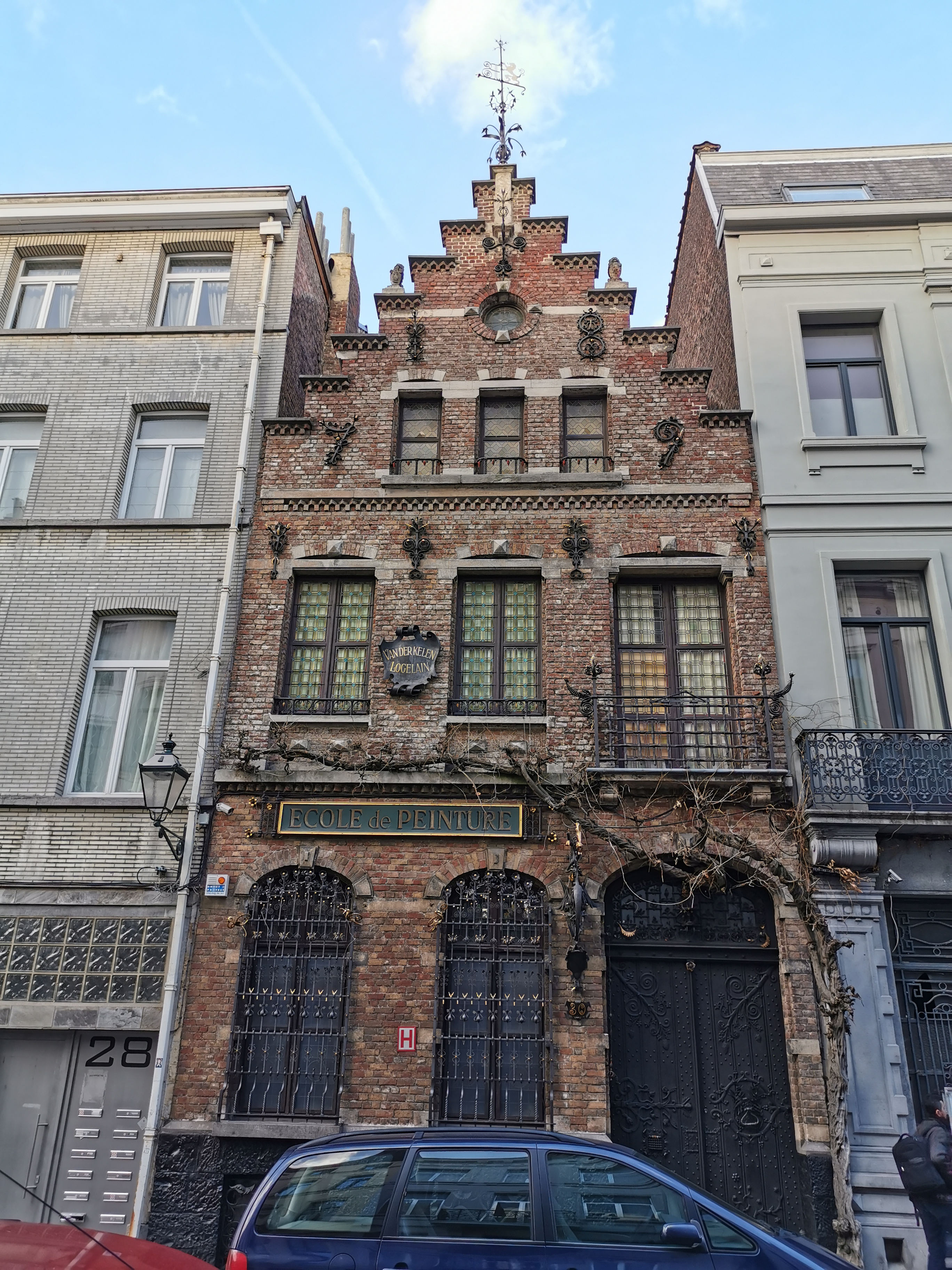 Institut Supérieur de Peinture Van Der Kelen-Logelain